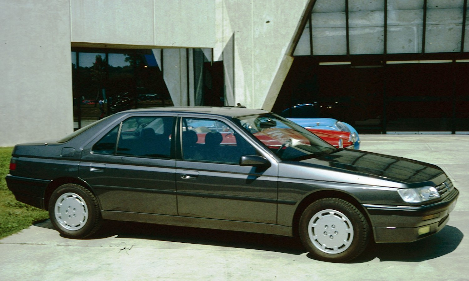 Peugeot 605 in profile